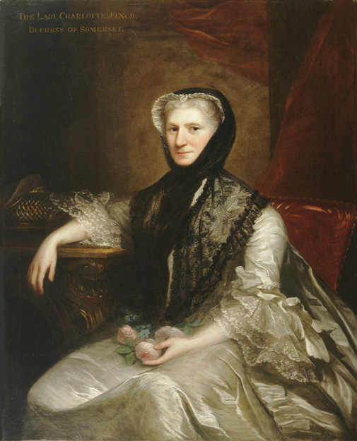 Charlotte Seymour, Duchess of Somerset (1711 – 1773). Born Charlotte Finch, daughter of Daniel Finch, 7th Earl of Winchilsea, she married Charles Seymour, 6th Duke of Somerset, as his second wife in 1726.